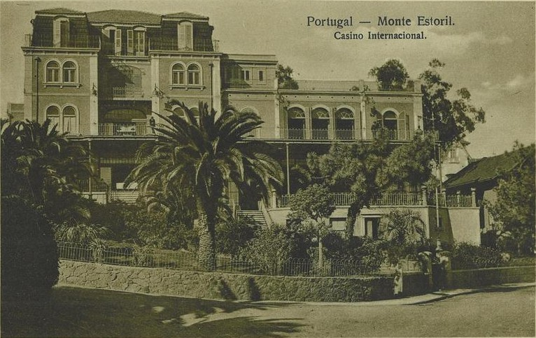 Picture of the Grande Casino Internacional Monte Estoril (Great International Casino Monte Estoril)